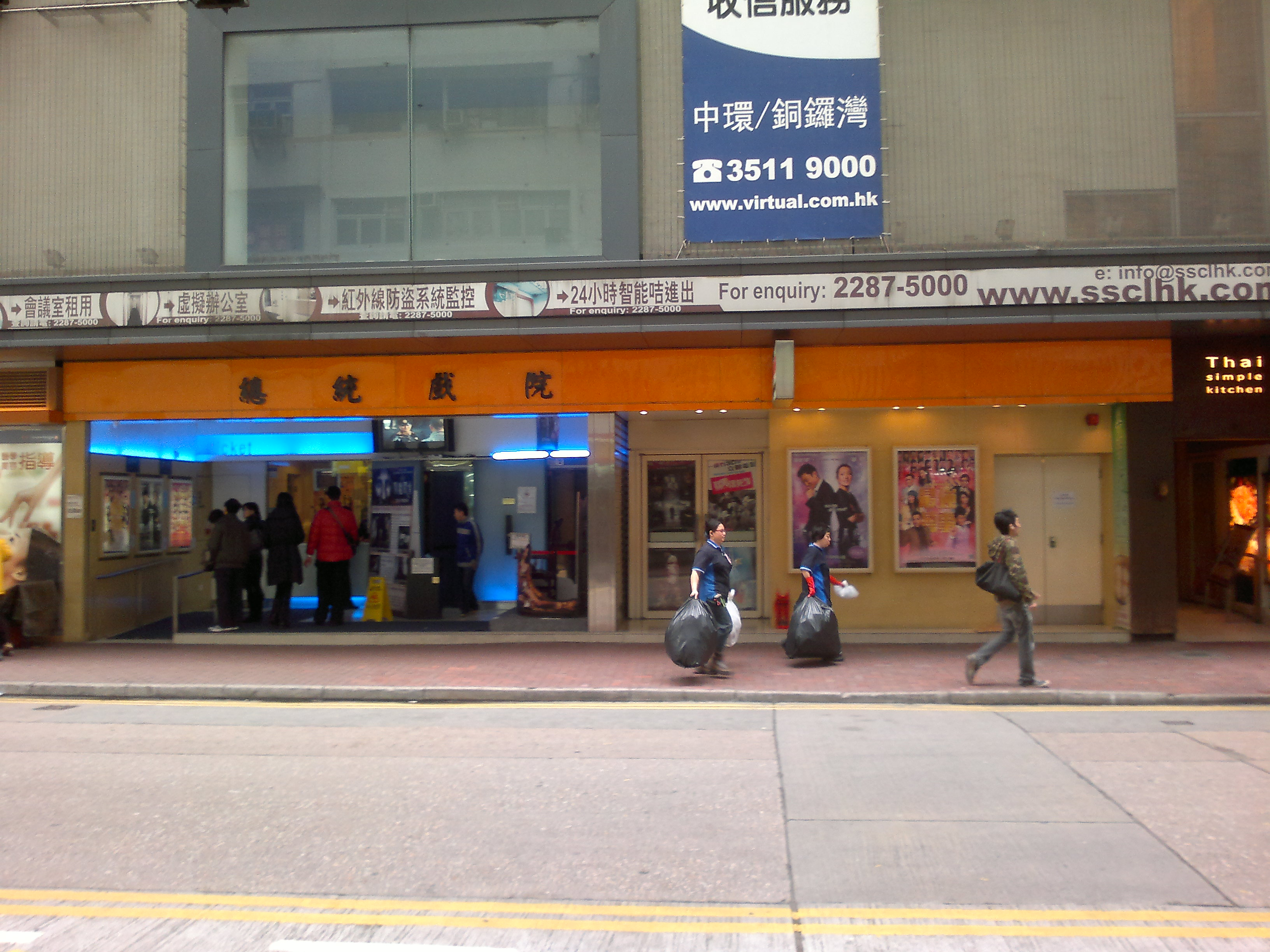 President Theatre, Cannon Street